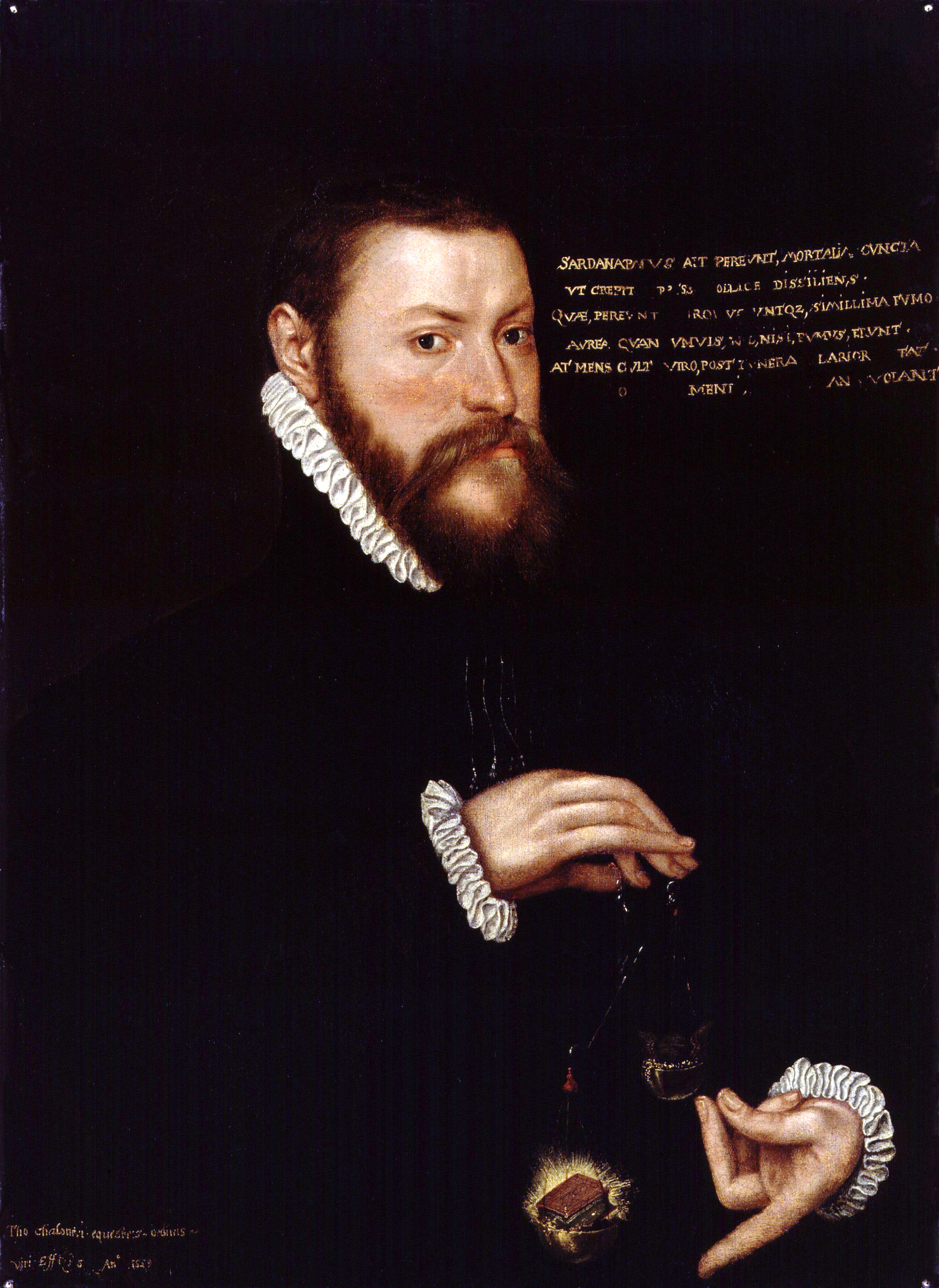 Sir Thomas Chaloner, by unknown artist, given to the National Portrait Gallery, London in 1900. All images in this batch are listed as "unknown author" by the NPG, who is diligent in researching authors, and was donated to the NPG before 1939 according to their website.